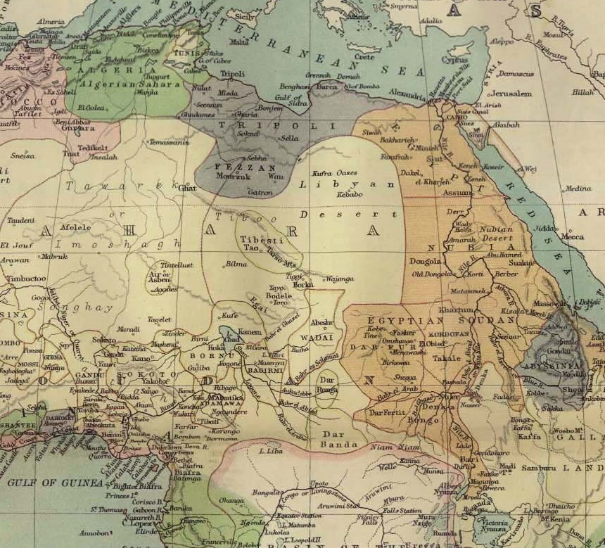 Northeast Africa in 1885